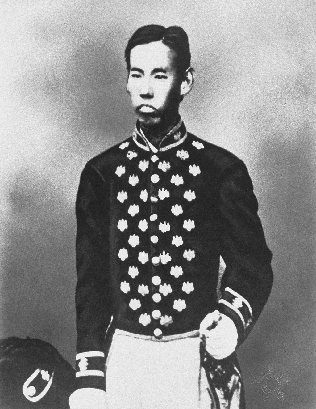 Portrait of Mori Motonori (毛利元徳, 1839 – 1896)